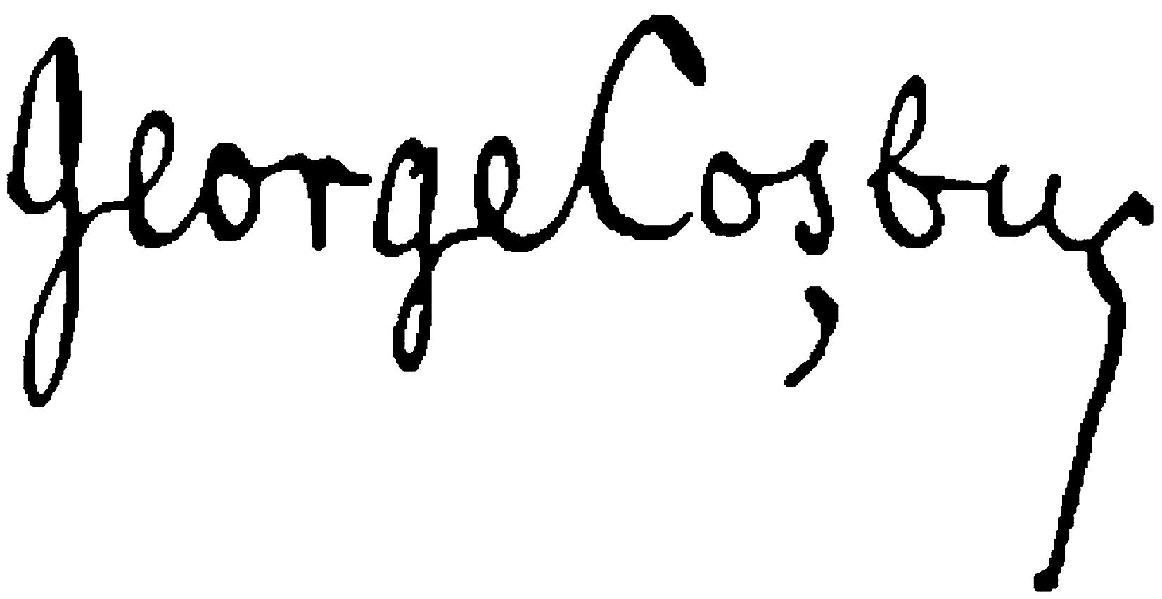 Calligraphed signature of the Romanian poet George Coşbuc.